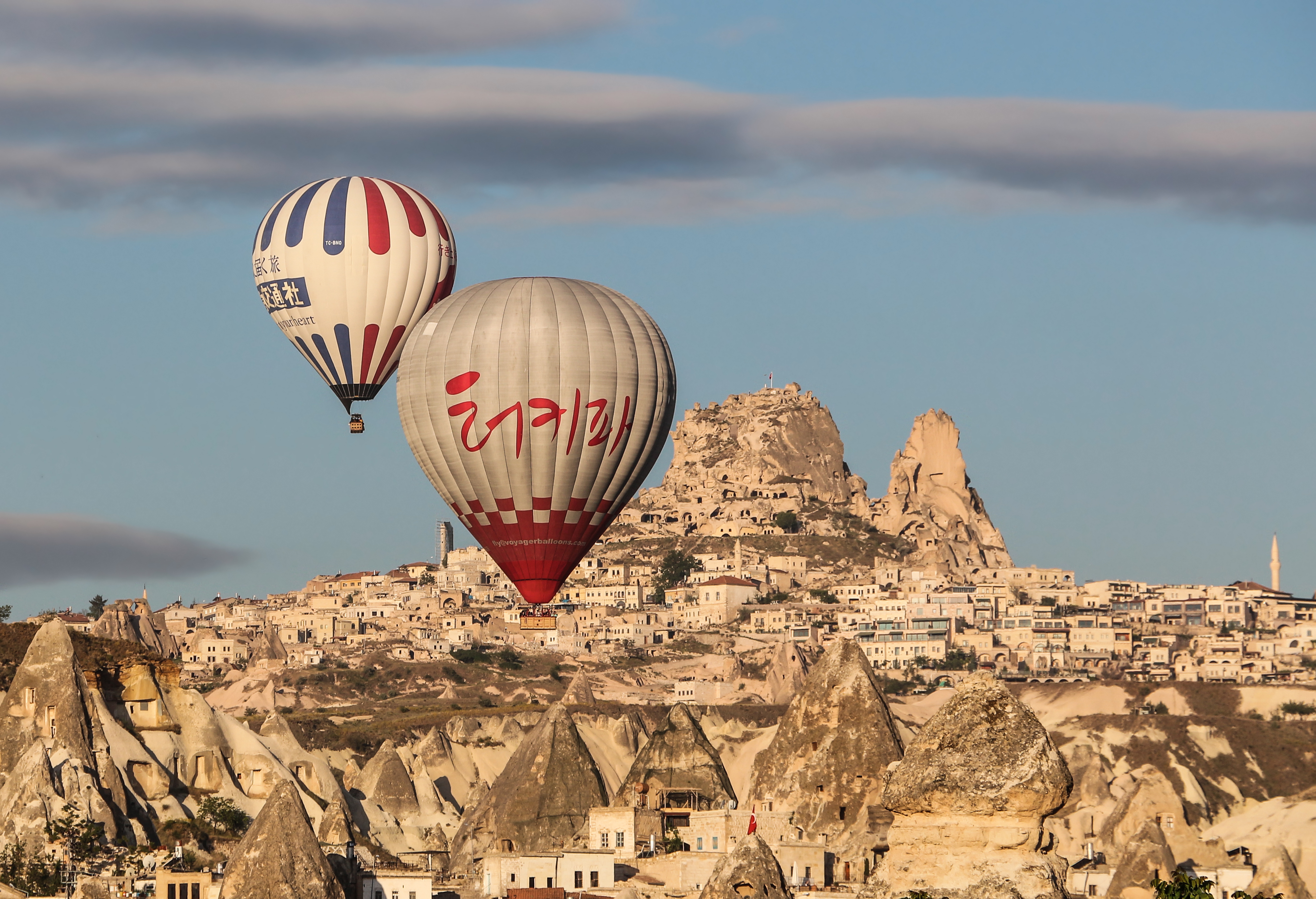 View of Uçhisar from a hot air balloon, Cappadocia, Turkey